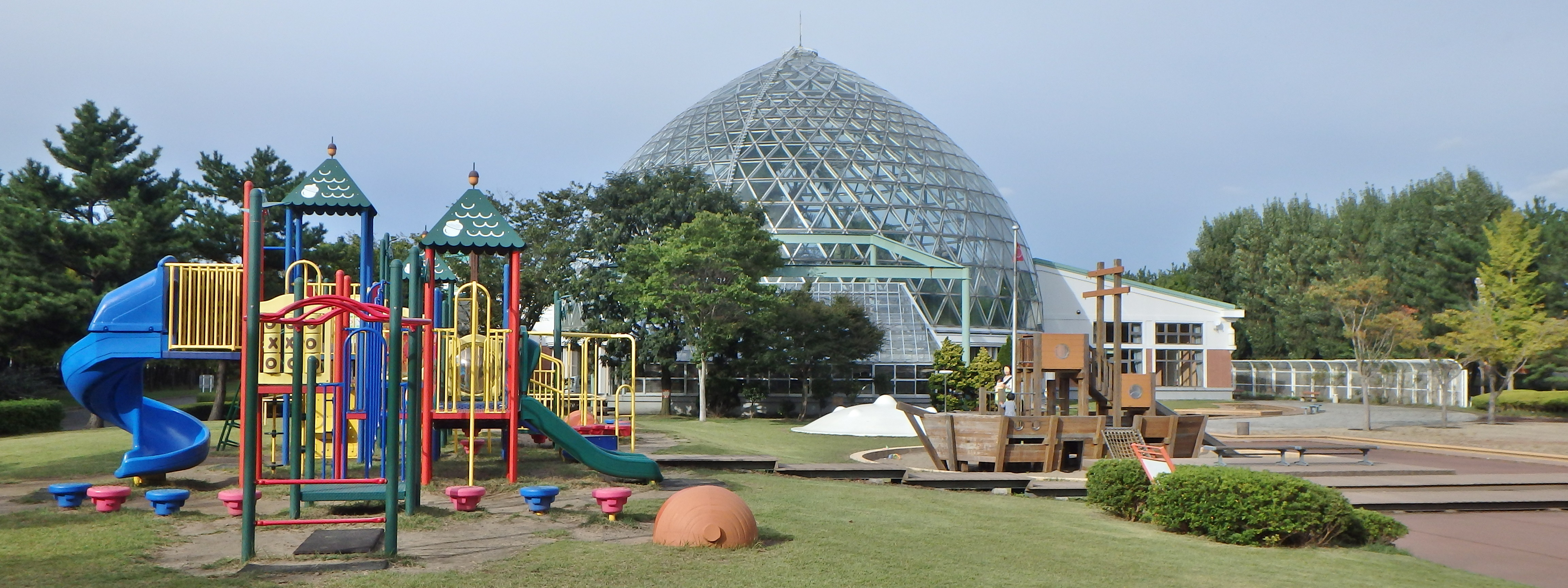 Noshiro Enadium Park,Akita prefecture,Japan